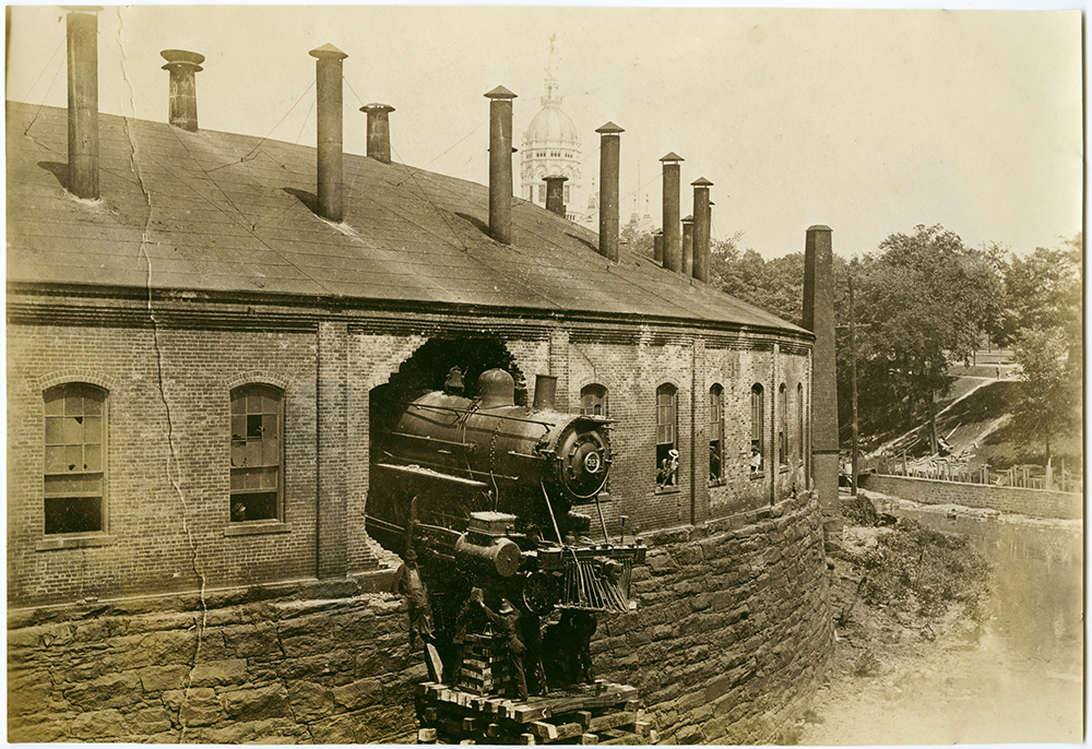 Title: [New York, New Haven and Hartford Locomotive No. 321 crash through roundhouse] Creator: Unknown Date: July 8, 1905 Part Of: Everett L. DeGolyer, Jr. United States railroad photographs Place: Hartford, Connecticut Physical Description: 1 photographic print: gelatin silver; 16.2 x 23.7 cm. File: ag1982_0264_07_01_001_opt.jpg Rights: Please cite Southern Methodist University, Central University Libraries, DeGolyer Library when using this image file. A high-quality version of this file may be obtained for a fee by contacting . For more information and to view the image in high resolution, see: View Railroads: Photographs, Manuscripts, and Imprints